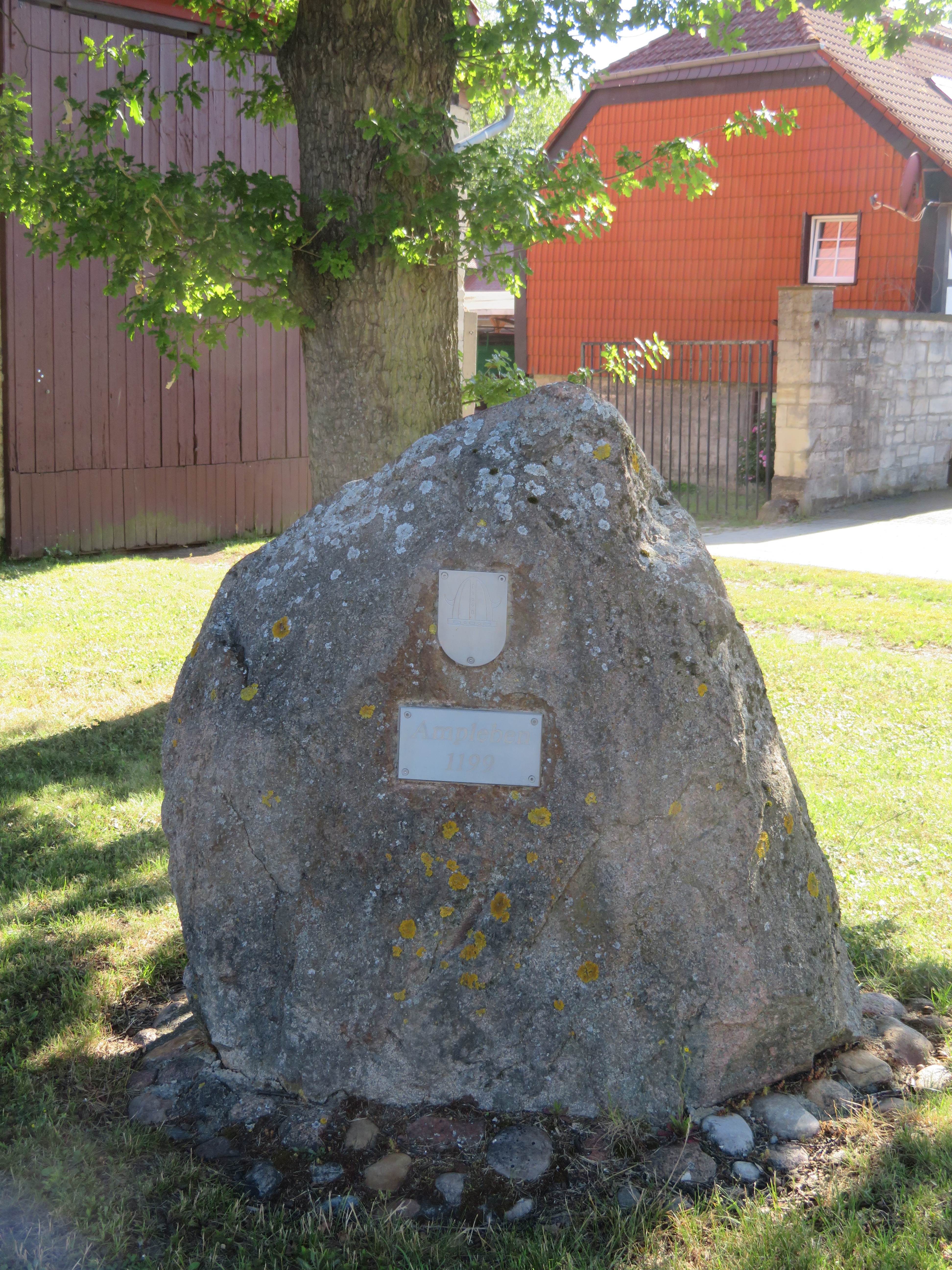 Memorial, Ampleben, Lower Saxony, Germany